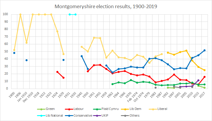 Montgomery election results